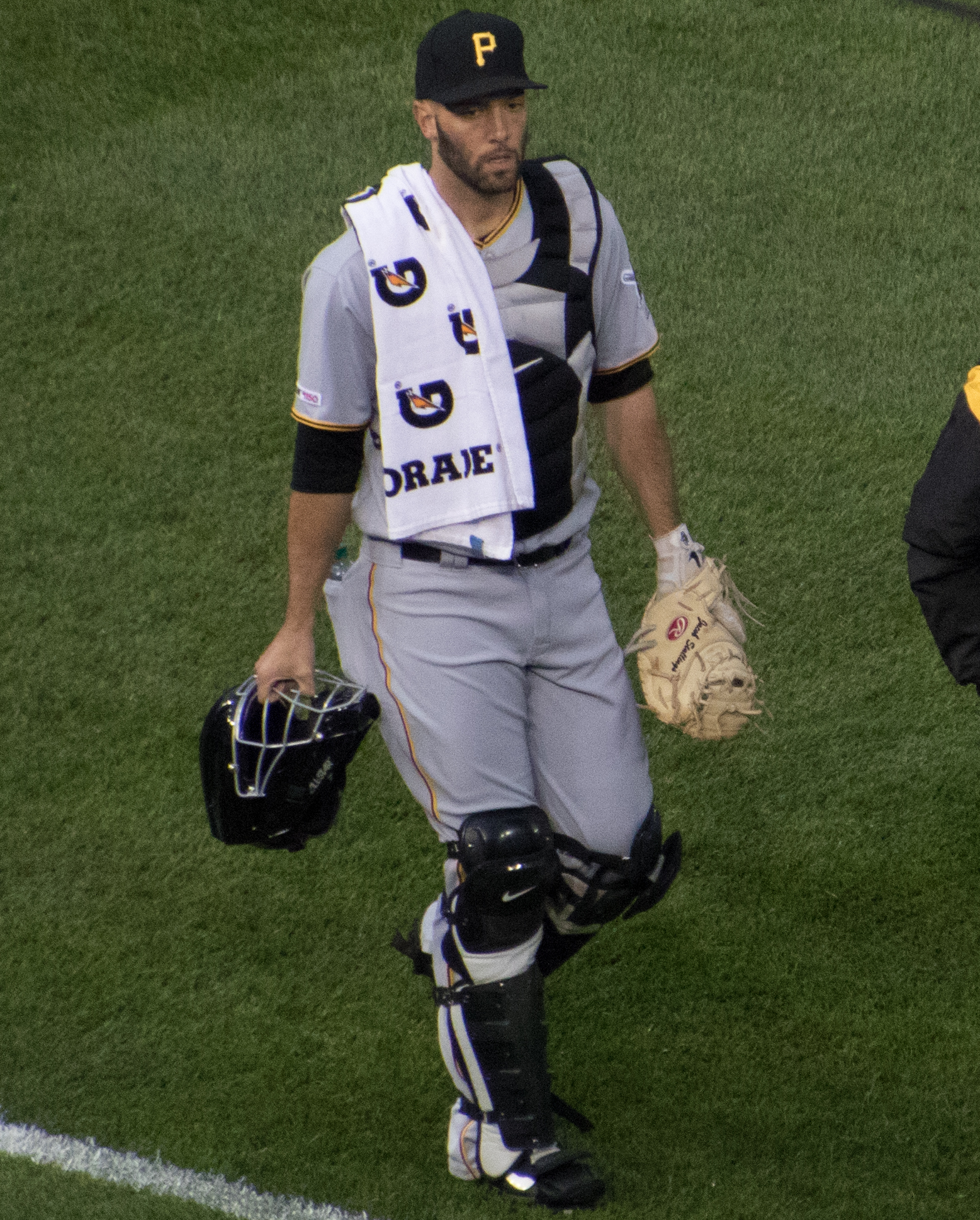 Jacob Stallings and Trevor Williams